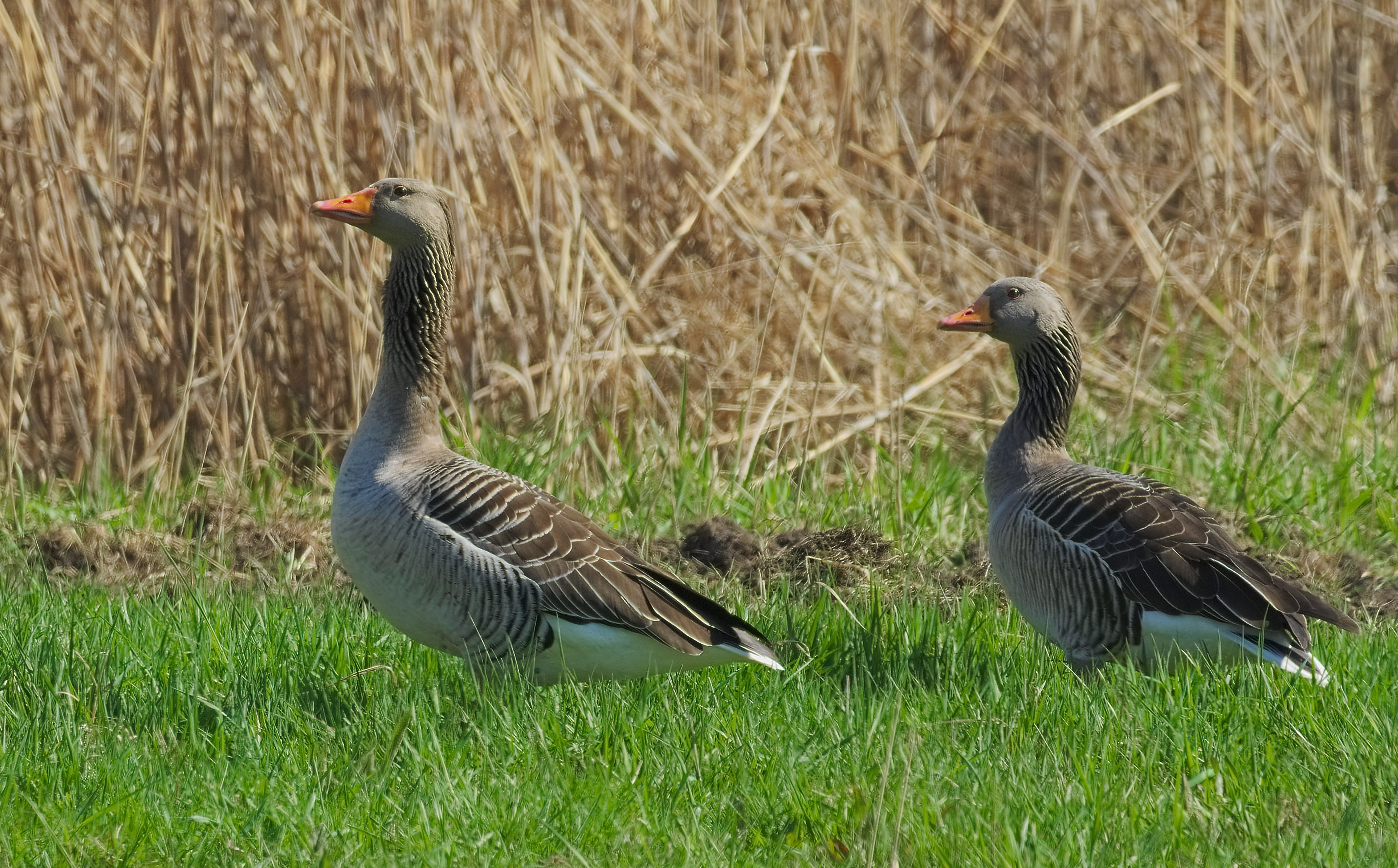 Greylag geese - Anser anser. Taken in the nature reserve Lampertheimer Altrhein in Lampertheim, Hesse, Germany.